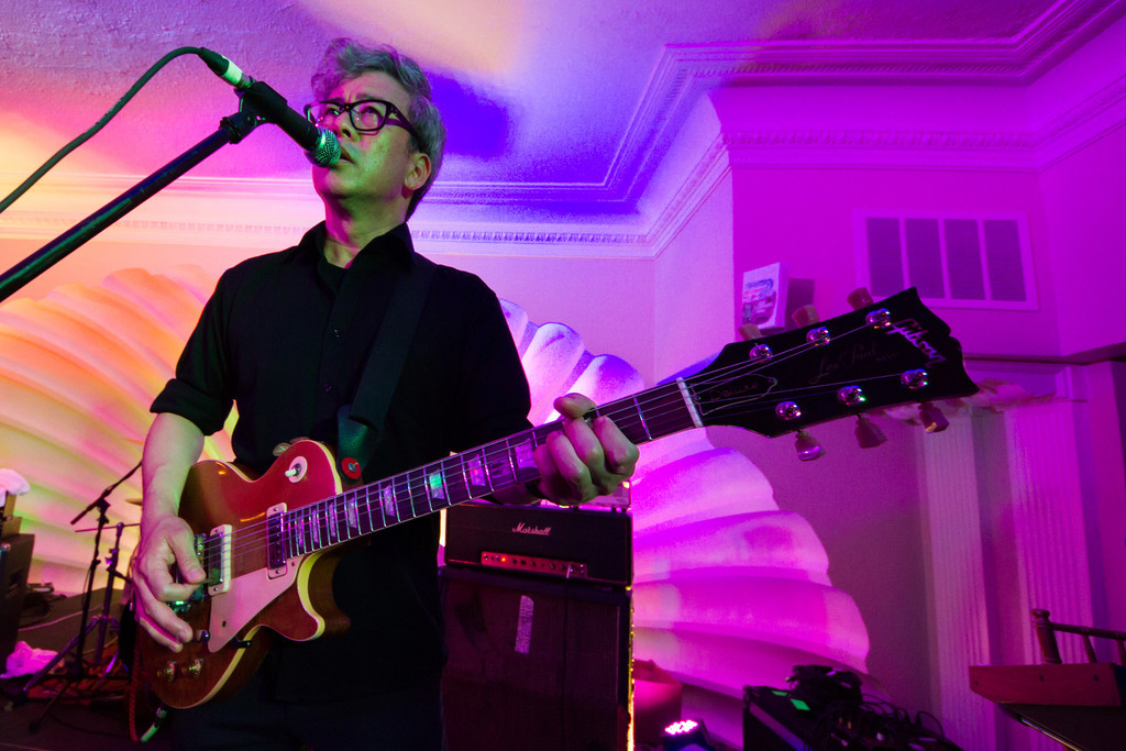 Singer/songwriter/guitarist John Lee performing with aMiniature at the LiveWire 20th Anniversary Bash at San Diego's Lafayette Hotel on Octeober 20, 2012